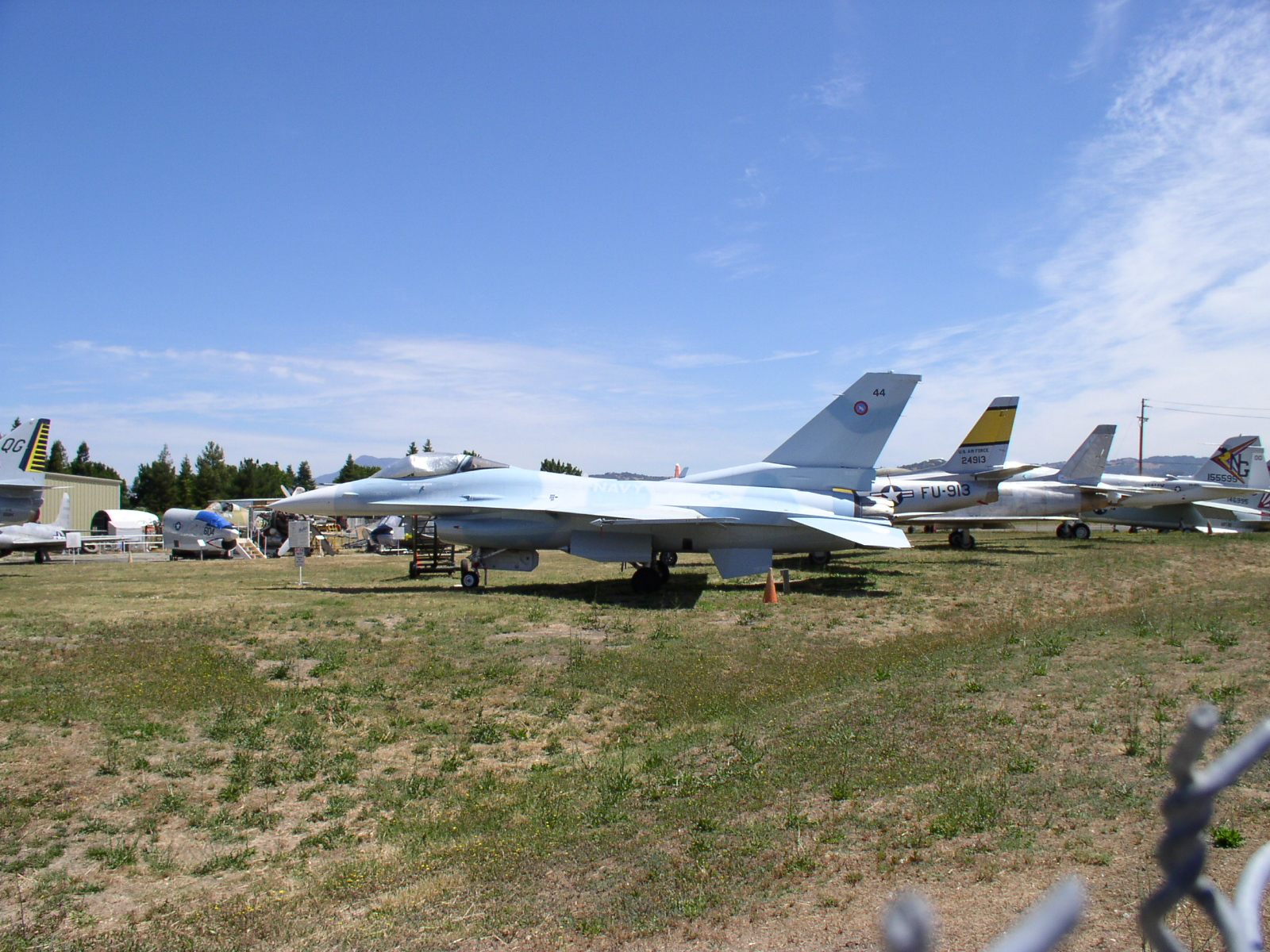 General Dynamics F-16. Navy version F-16N Viper. Taken in Pacific Coast Air Museum, Santa Rosa, California, USA.